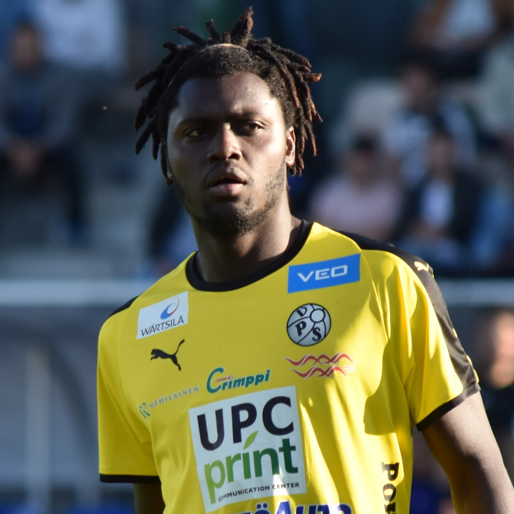 Association football player Aubrey David (VPS)